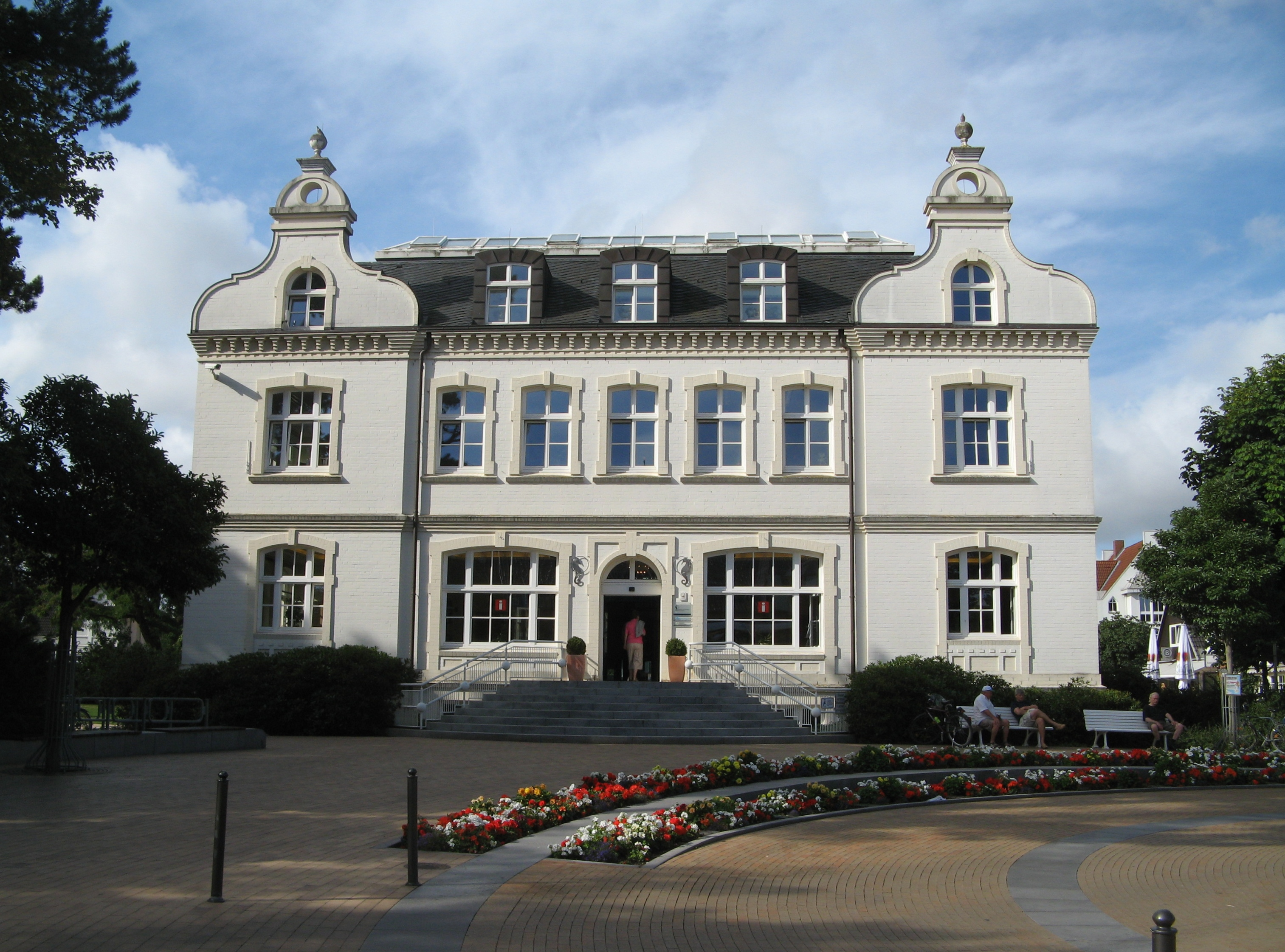 Timmendorfer Strand, Timmendorfer Platz - House of spa administration and library